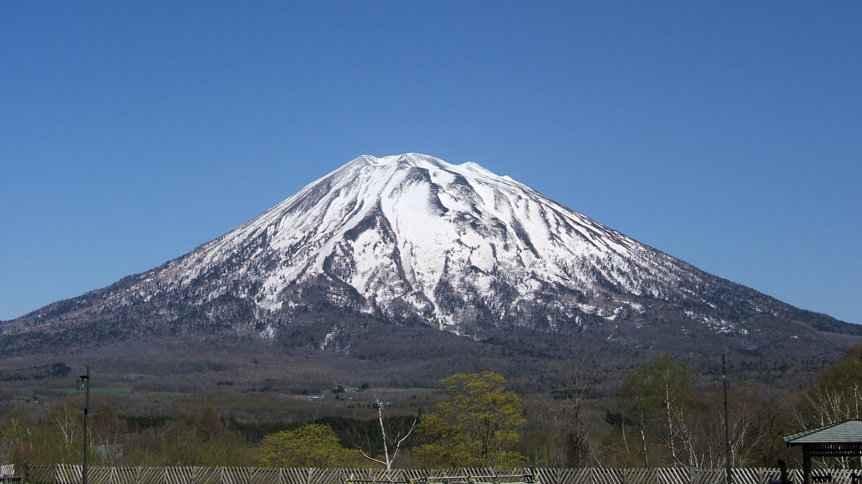 Mount Yotei from Hirafu